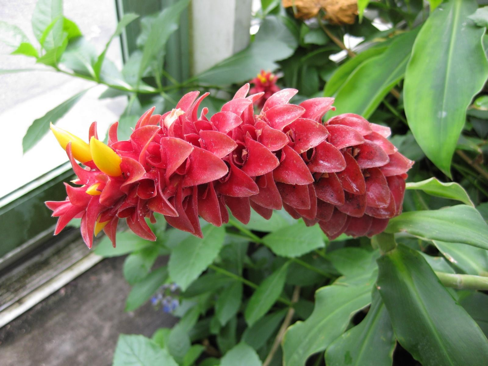 Photographed at Brooklyn Botanic Garden (New York) in September